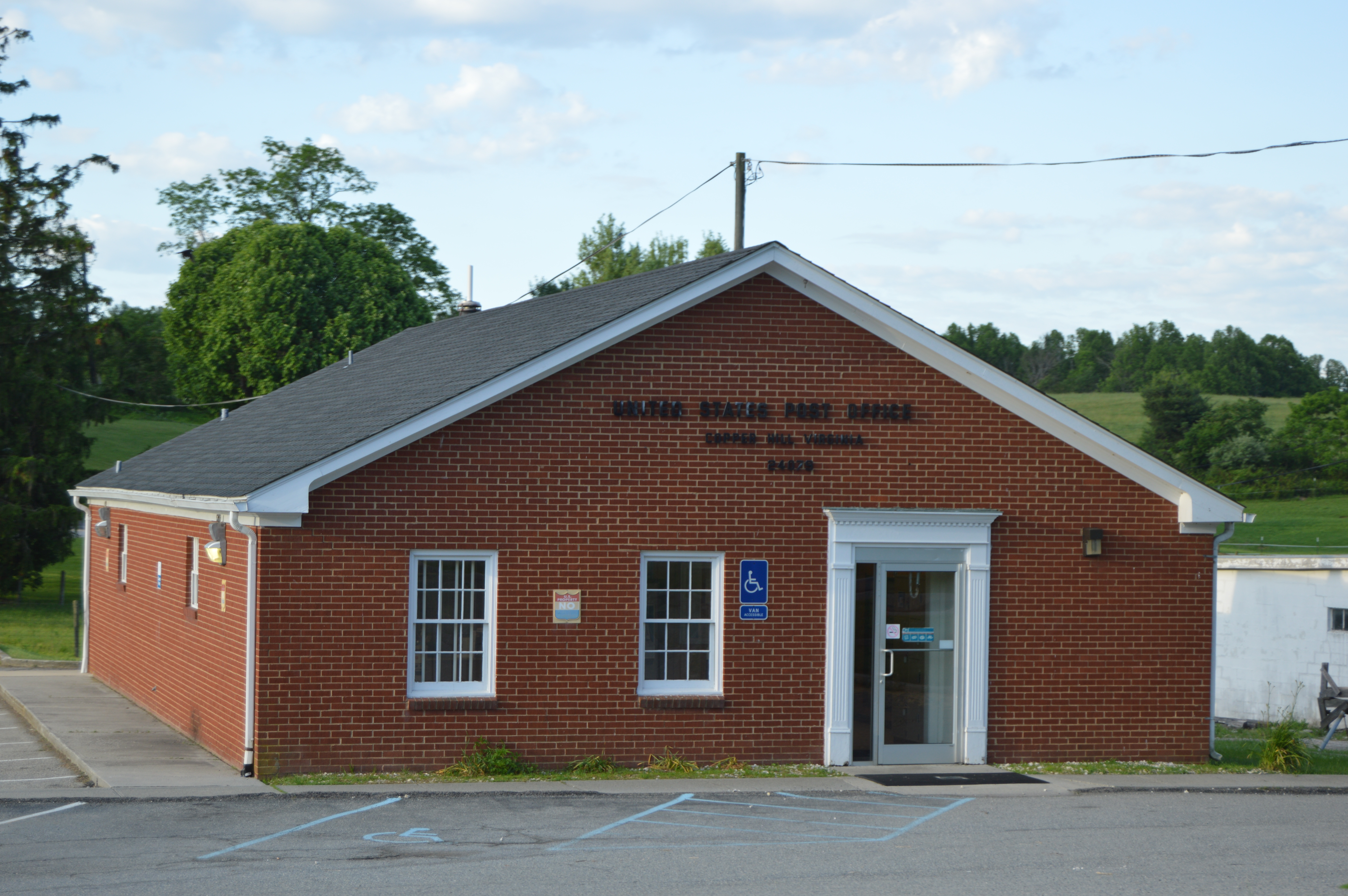 Front of the Copper Hill post office, located at 8480 U.S. Route 221 at Copper Hill in Floyd County, Virginia, United States.